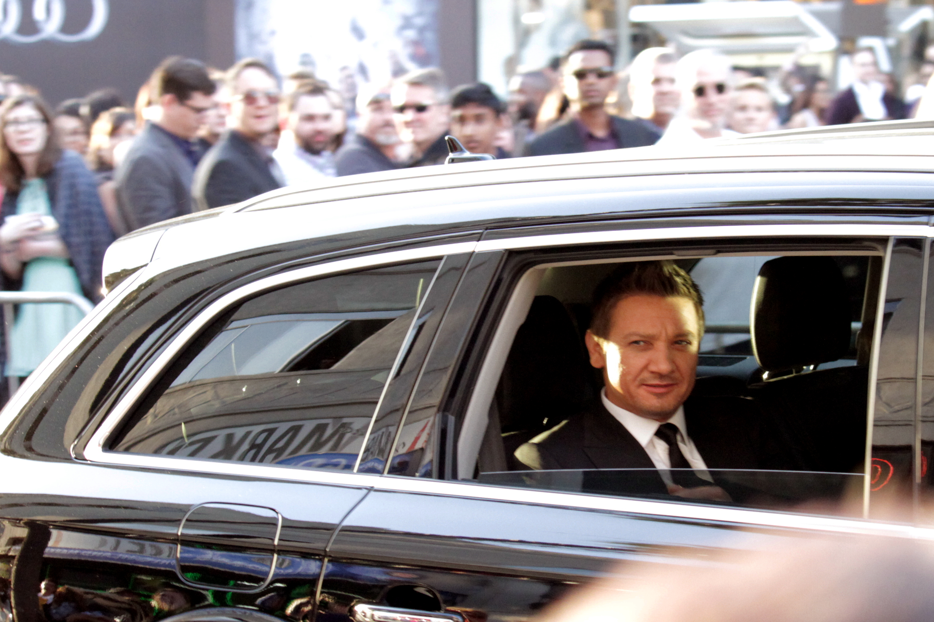 Jeremy Renner at the world premiere of Avengers: Age of Ultron at the Dolby Theatre in Hollywood, California.